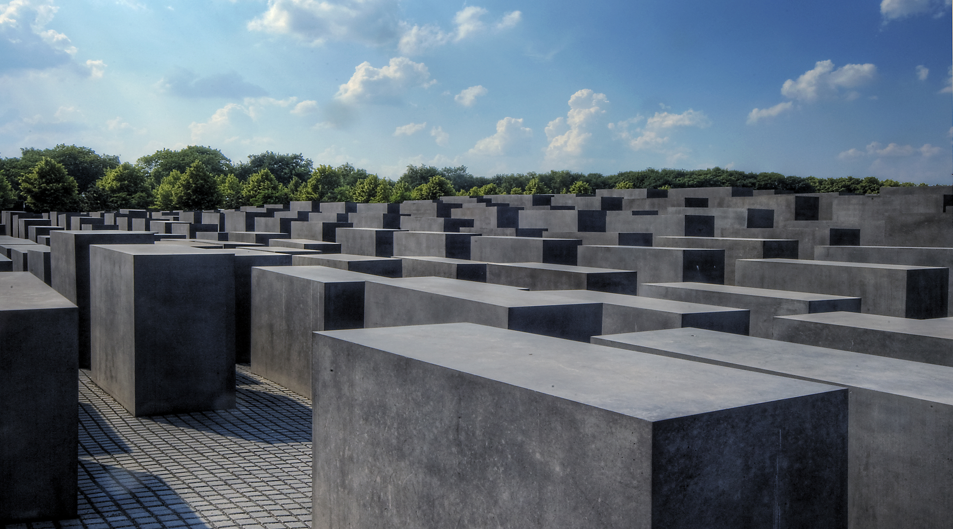 The Memorial to the Murdered Jews of Europe (German: Denkmal für die ermordeten Juden Europas), also known as the Holocaust Memorial (German: Holocaust-Mahnmal), is a memorial in Berlin to the Jewish victims of the Holocaust, designed by architect Peter Eisenman and engineers Buro Happold. It consists of a 19,000 square meter (4.7 acre) site covered with 2,711 concrete slabs or "stelae", arranged in a grid pattern on a sloping field. The stelae are 2.38m (7.8') long, 0.95m (3' 1.5") wide and vary in height from 0.2m to 4.8m (8" to 15'9"). According to Eisenman's project text, the stelae are designed to produce an uneasy, confusing atmosphere, and the whole sculpture aims to represent a supposedly ordered system that has lost touch with human reason. A 2005 copy of the Foundation for the Memorial's official English tourist pamphlet, however, states that the design represents a radical approach to the traditional concept of a memorial, partly because Eisenman did not use any symbolism. An attached underground "Place of Information" (German: Ort der Information) holds the names of all known Jewish Holocaust victims, obtained from the Israeli museum Yad Vashem. Building began on April 1, 2003 and was finished on December 15, 2004. It was inaugurated on May 10, 2005 and opened to the public on May 12 of the same year. It is located one block south of the Brandenburg Gate, in the Friedrichstadt neighborhood. The location of the memorial was the site of the Reich Chancellery of Adolf Hitler during the Third Reich. The cost of construction was approximately €25 million. From Wikipedia, the free encyclopedia